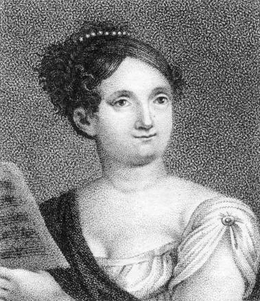 Italian opera singer Marietta Marcolini (ca. 1780-18..). Stipple engraving by Giovanni Antonio Sasso (18..-18..).